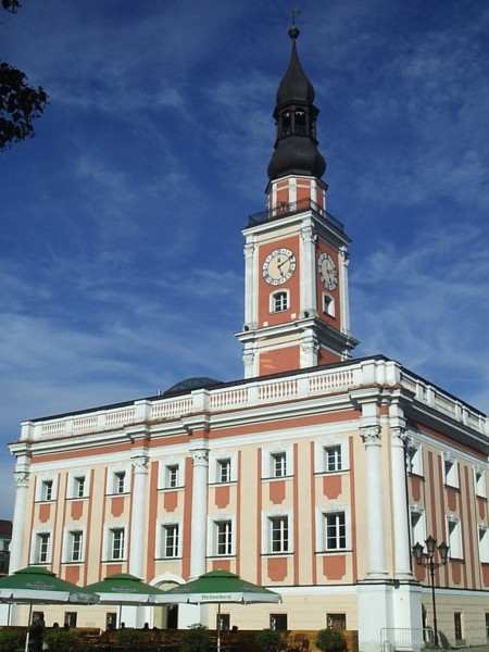 Town hall in Leszno